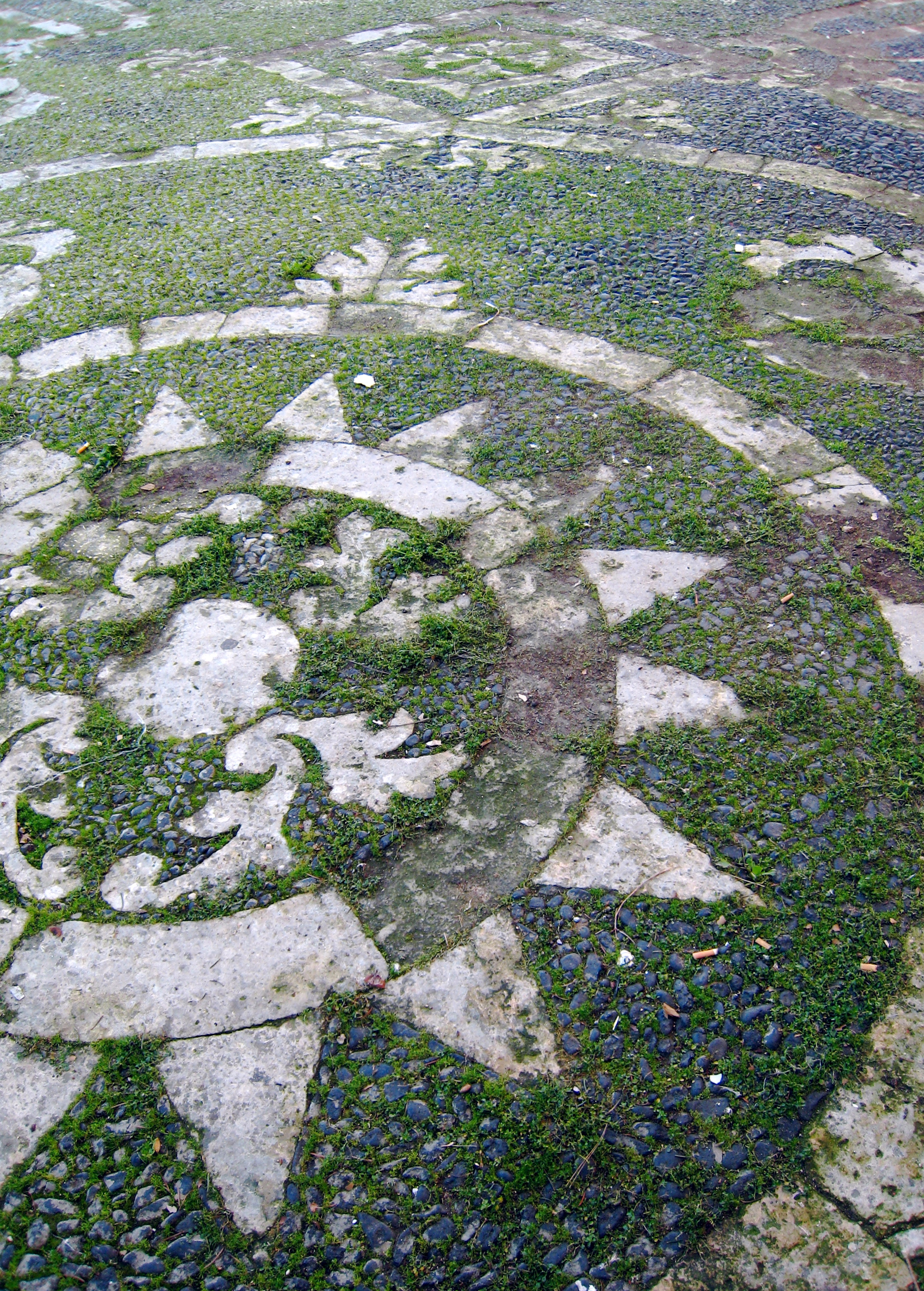 Melilli cathedral